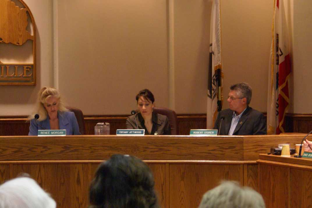 Tiffany Rene Estrella Attwood - at Danville, California's Town Planning Commission meeting